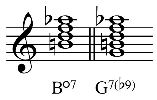 A comparison of the Diminished 7th chord and the Minor 9th Chord